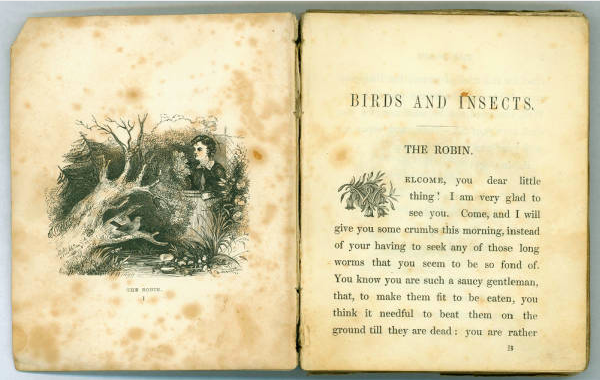 Jane Bragg's Book